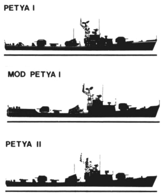 Profile of a Soviet Petya-class (Project 159, SKR-1) frigate.